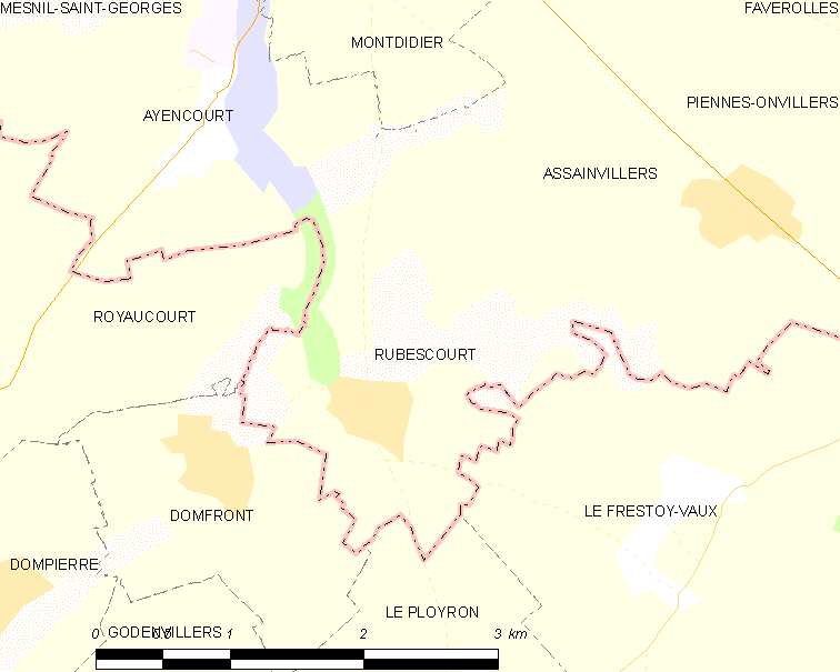 Map of French municipality Rubescourt